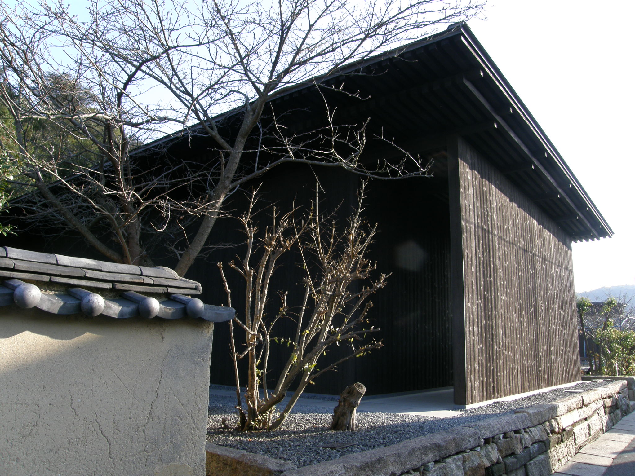 Art house project in Naoshima, Minami-dera(南寺、直島 家プロジェクト)